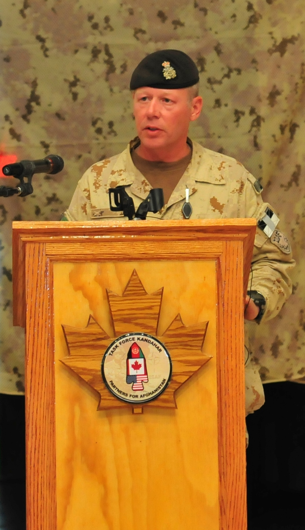 Canadian Brig. Gen. Jonathan Vance speaks to key Afghan and coalition force leaders along with members of the Canadian task force during a change of command ceremony held at Kandahar Air Field, Sept. 9. The command of Joint Task Force Kandahar was transferred from Canadian Brig. Gen. Jonathan Vance to Canadian Brig. Gen. Dean Milner.